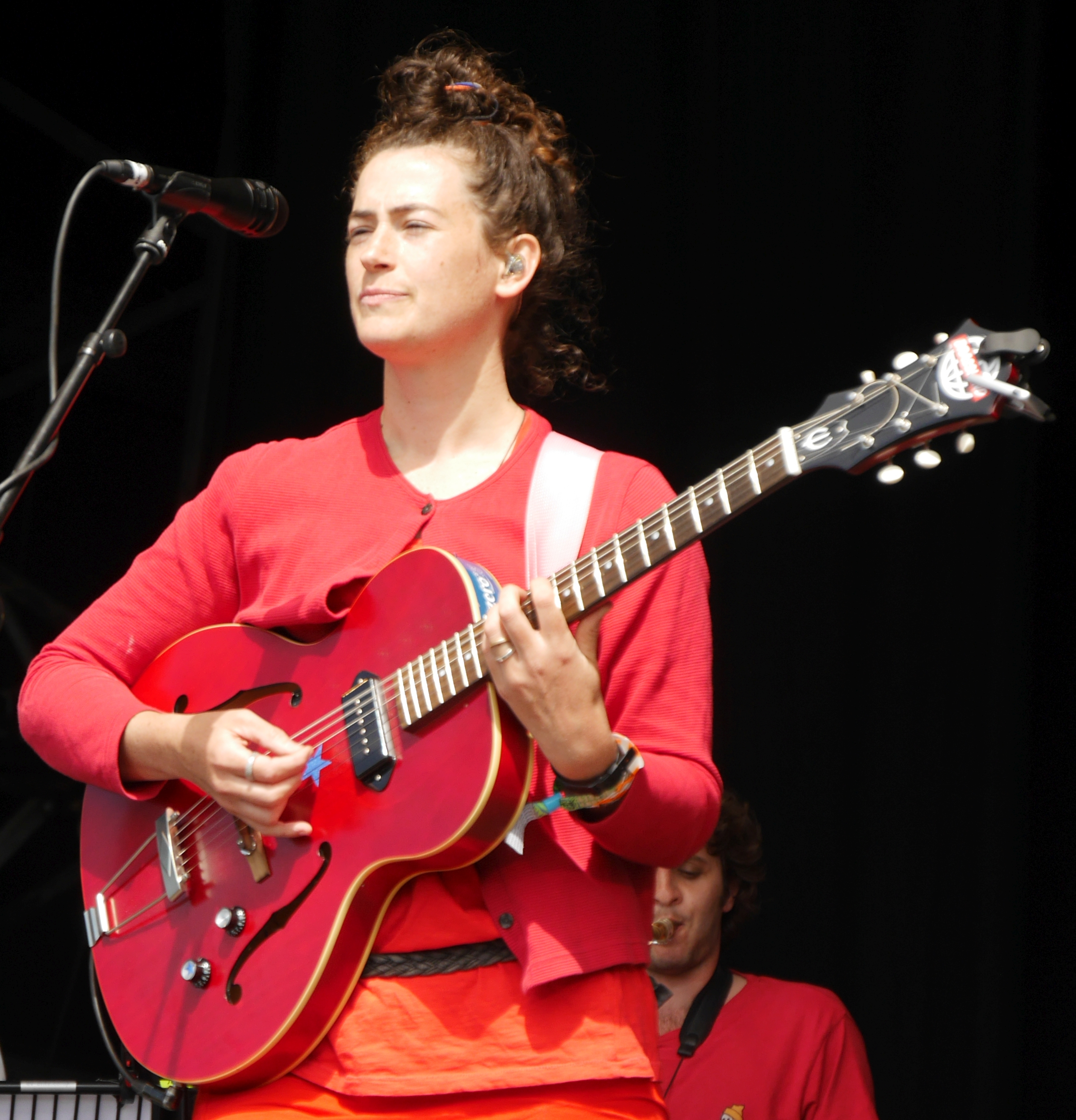 This Is the Kit 2019 Glastonbury Festival